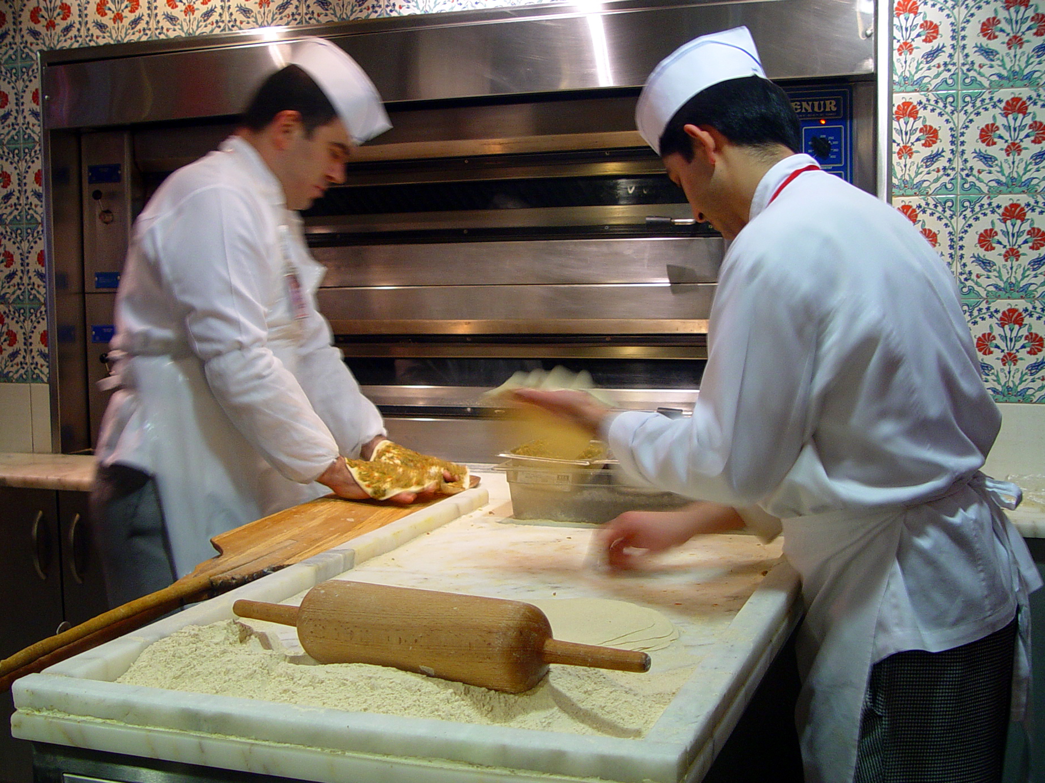 Modern Pita bakery in Istanbul